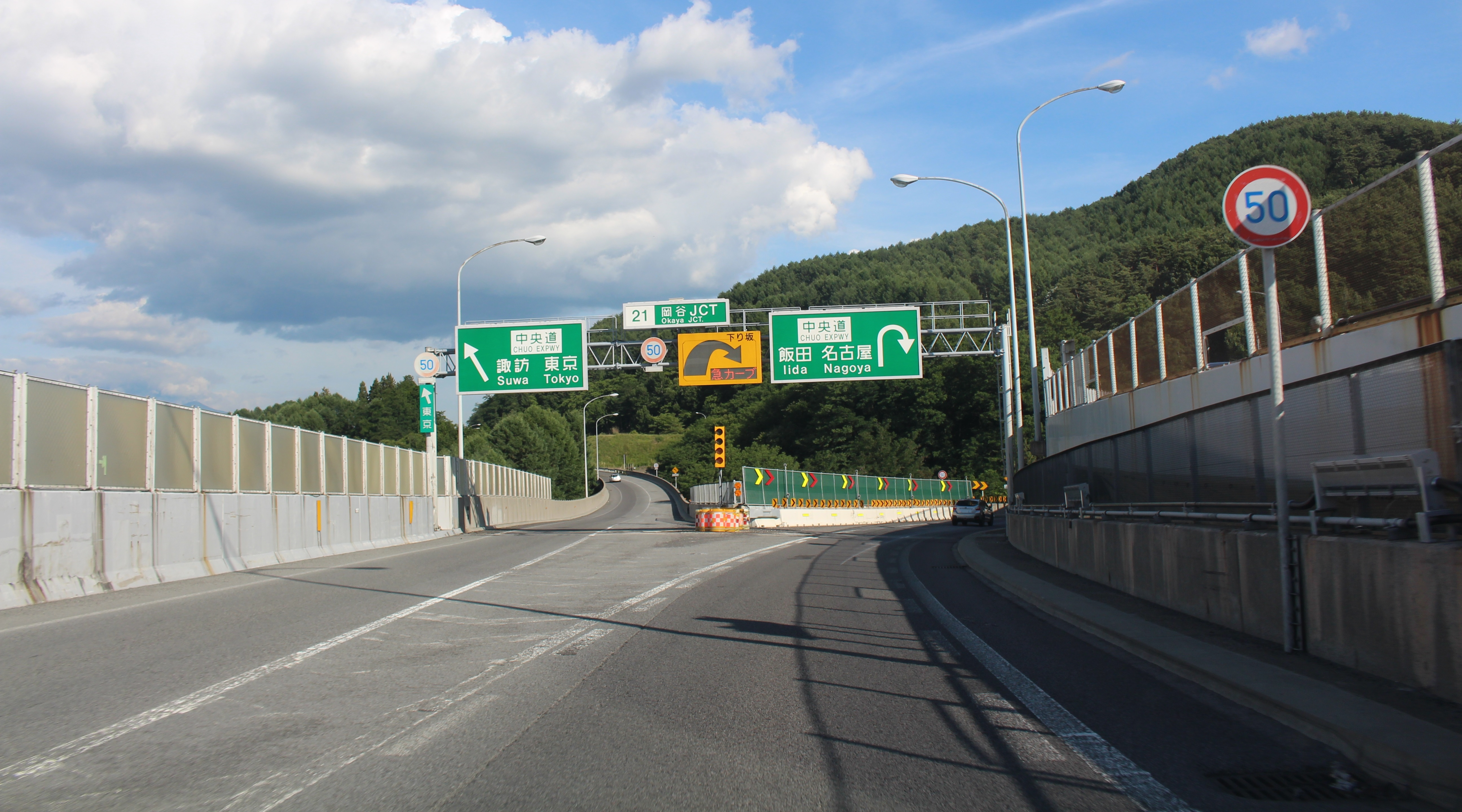 Okaya Junction from Nagano Expressway to Chuo Expressway, in Okaya, Nagano prefecture, Japan.